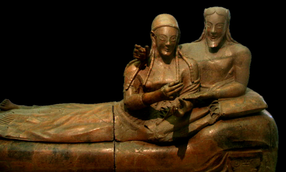 Sarcophagus of the Spouses, sixth century BC; National Etruscan Museum, Villa Giulia, Rome.